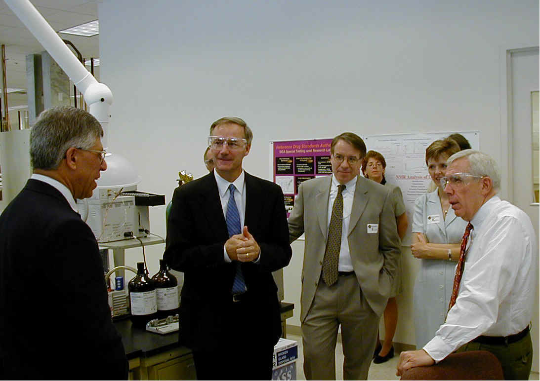 Congressman Frank Wolf recently toured a DEA drug testing facility in Northern Virginia with DEA Administrator Asa Hutchinson. Rep. Wolf's subcommittee, Commerce-Justice-State-the Judiciary, has jurisdiction over the DEA. On September 13, the CJSJ subcommittee will hold a hearing on the illegal use of the highly addictive painkiller